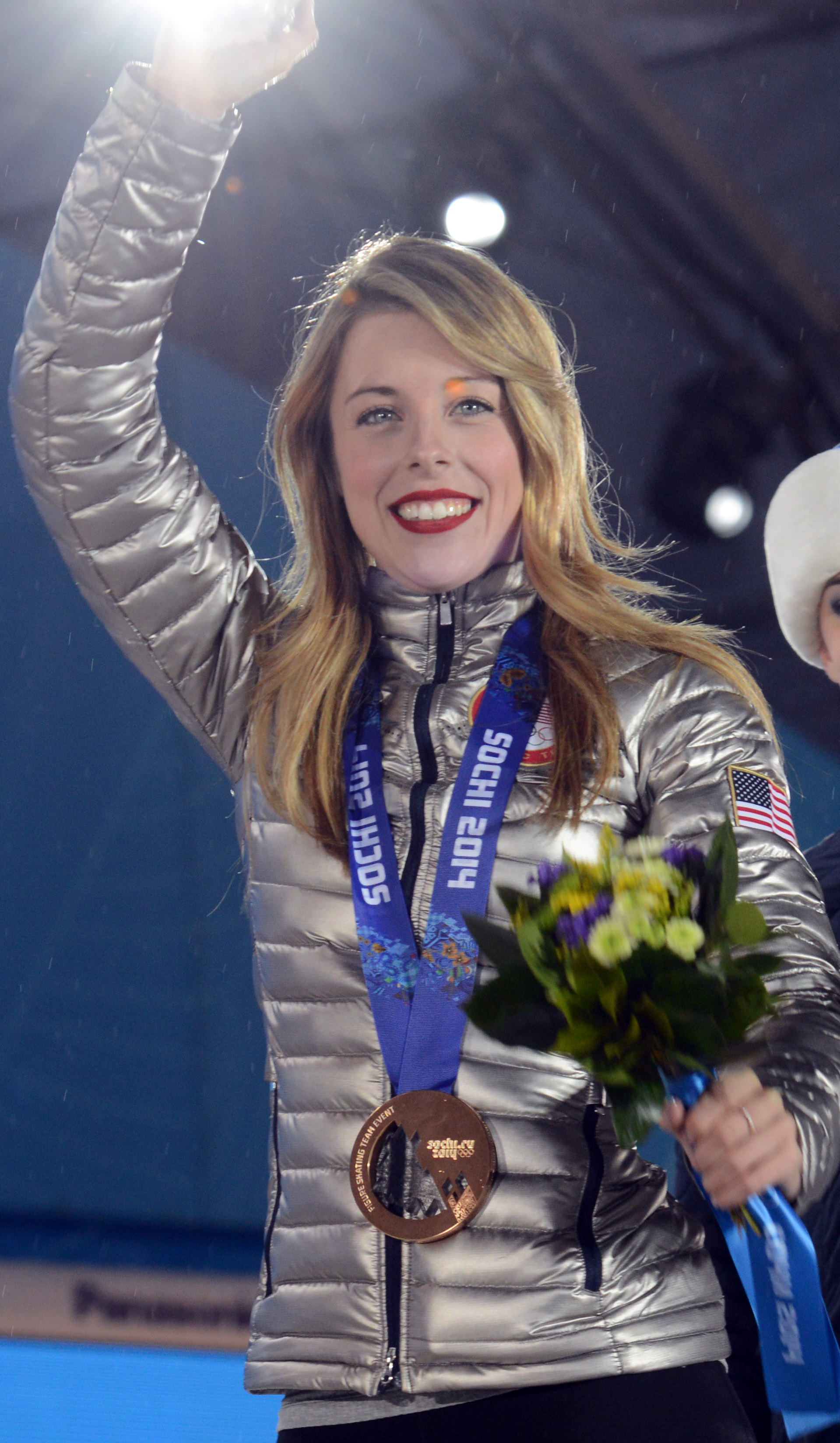 Army family member Ashley Wagner waves to the crowd at Victory Plaza after receiving an Olympic Bronze Medal for Team Figure Skating in Sochi, Russia, Feb. 10. This is the first Olympic Winter Games for Team Figure Skating as a medal sport. (Photo by Gary Sheftick)